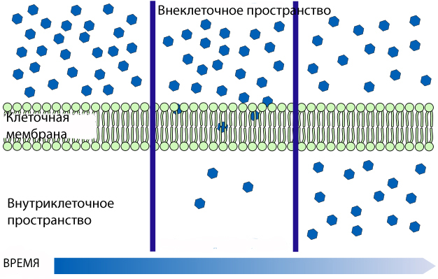 This file was taken from german wikipedia article (Blut-Hirn-Schranke) which was made under free licence. I changed german words in russian with Photoshop